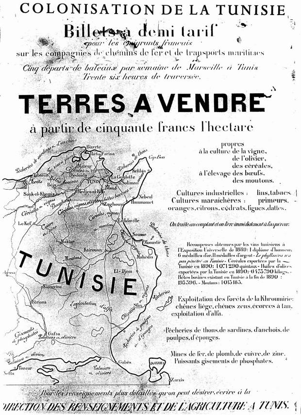 Poster inviting French people to immigrate in Tunisia around 1890